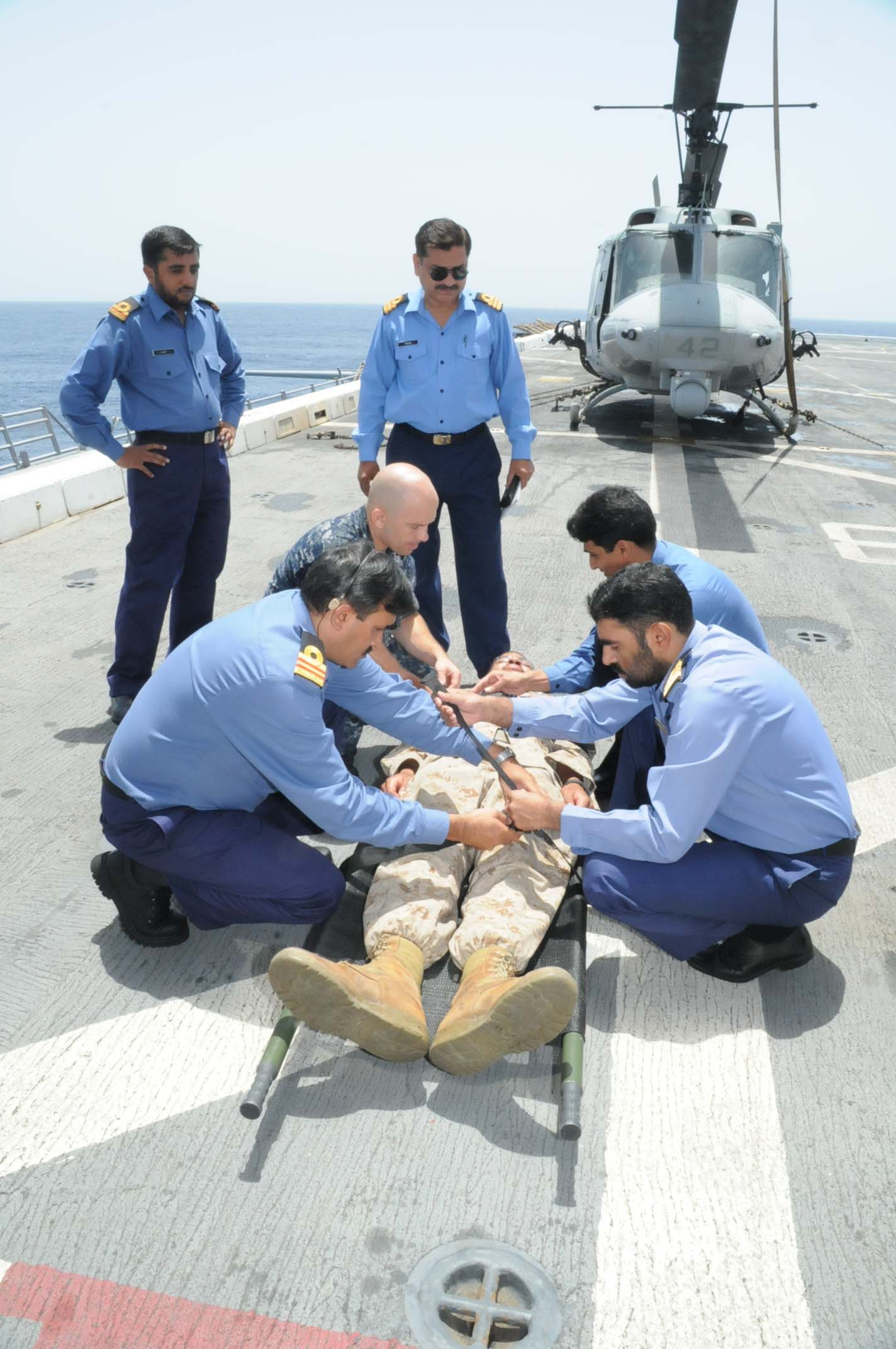 U.S. 5Th FLEET AREA OF RESPONSIBILITY (June 5, 2010) Pakistani navy Surgeons and Hospital Corpsman 2nd Class Nicholas Marcotte, assigned to the health services department aboard the amphibious transport dock ship USS Mesa Verde (LPD 19), use a raven litter stretcher to transport Hospital Corpsman 2nd Class William West during a medical training exercise. Pakistani navy Surgeons from the Pakistani navy spent a week aboard Mesa Verde, where they shared medical information with the health services department. Mesa Verde is part of the Nassau Amphibious Ready Group supporting maritime security operations and theater security cooperation operations in the U.S. 5th Fleet area of responsibility. (U.S. Navy photo by Mass Communication Specialist 1st Class Hodges Pone III/Released)